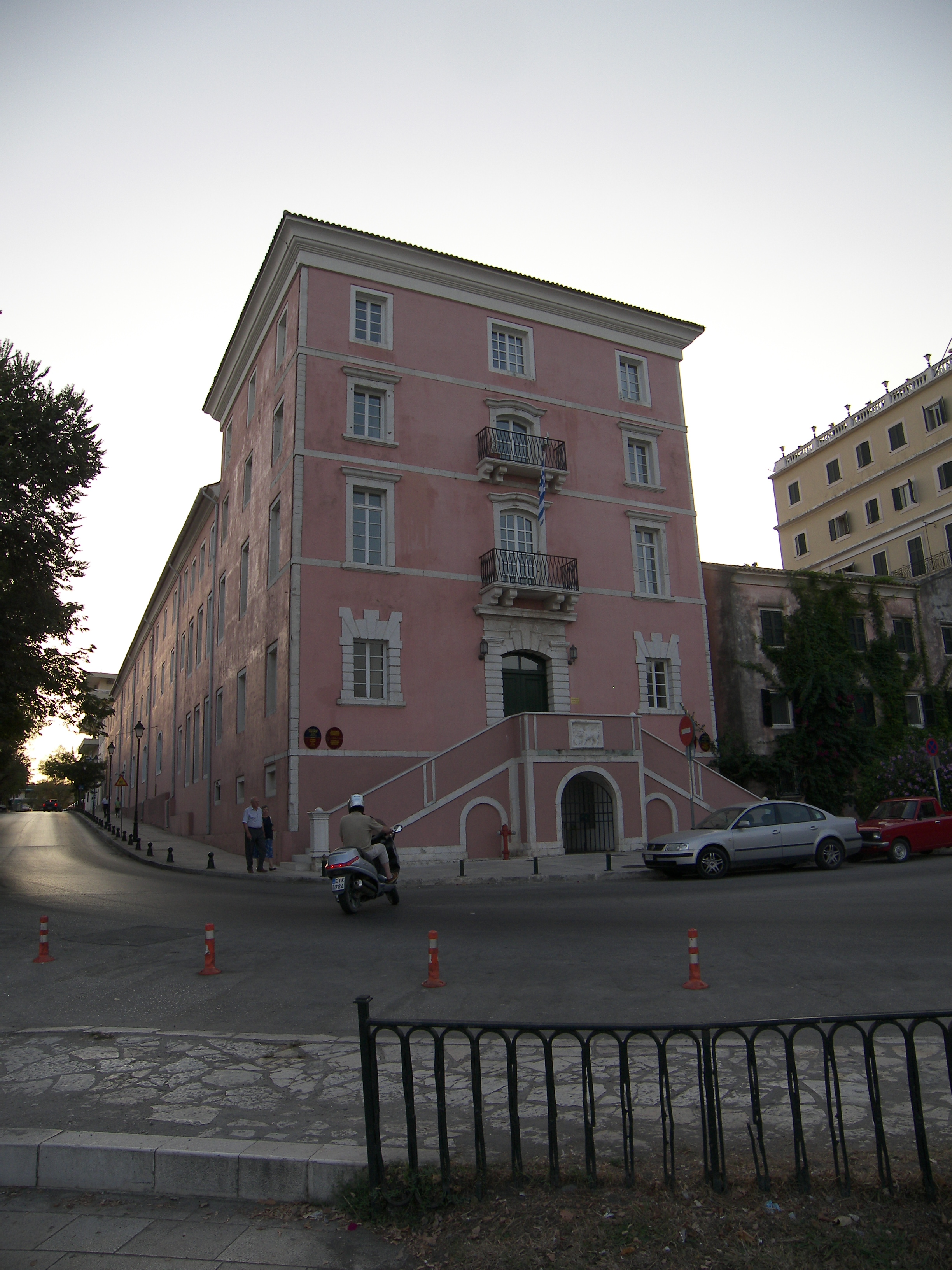 Filename